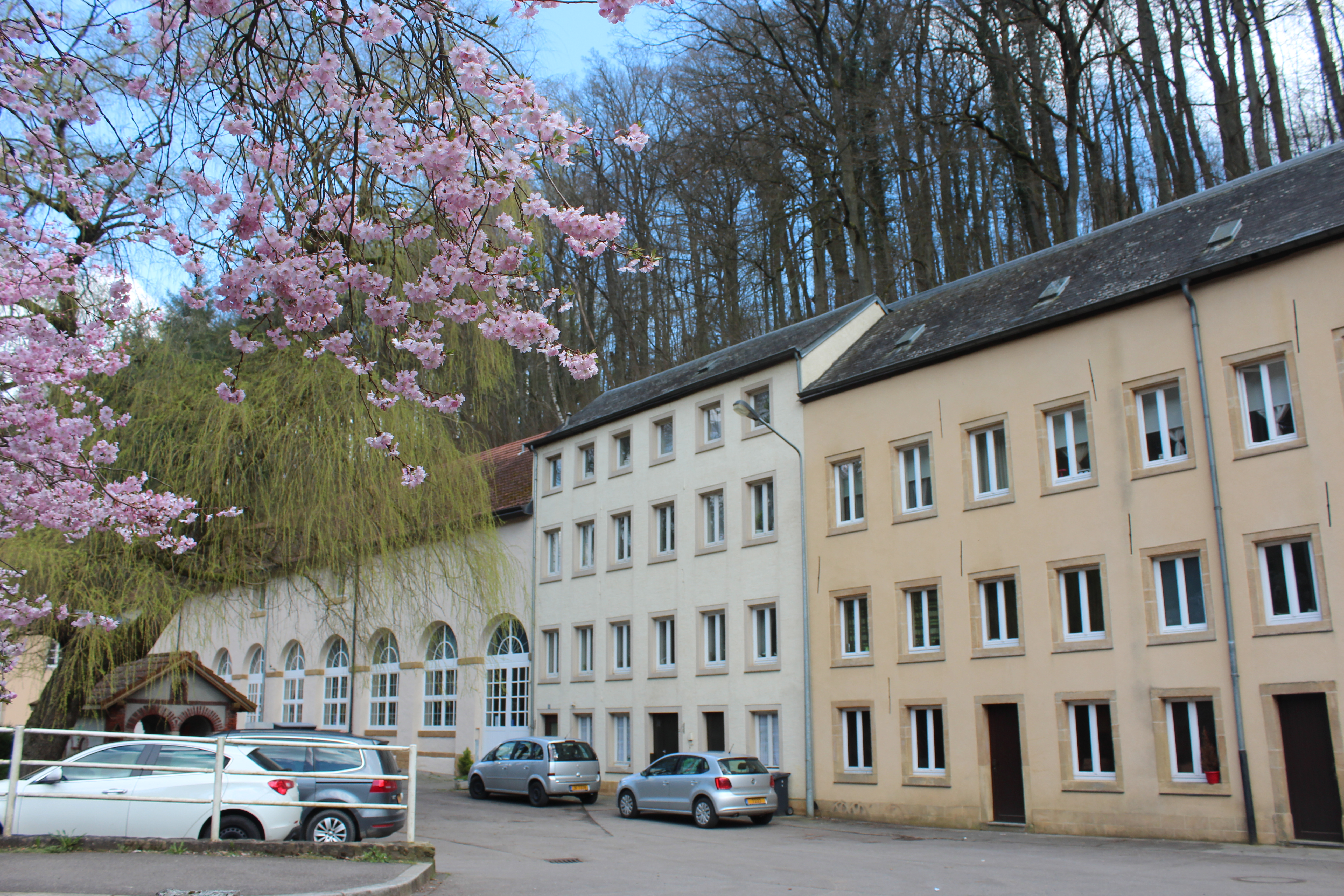 Schläifmillen, Hamm, Luxembourg City